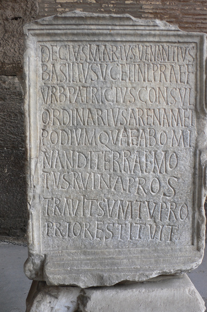 Inscription of Decius Marius Venantius Basilius, who restored the Colosseum after an earthquake. Text: DECIVS MARIVS VENANTIVS BASILIVS V [IR] C [LARISSIMVS] ET INL [VSTRIS] PRAEF [ECTVS] VRB [I] PATRICIVS CONSVL ORDINARIVS ARENAM ET PODIVM QVAE ABOMI NANDI TERRAEMO TVS RVINA PROS TRAVIT SVM [P] TV PRO PRIO RESTITVIT